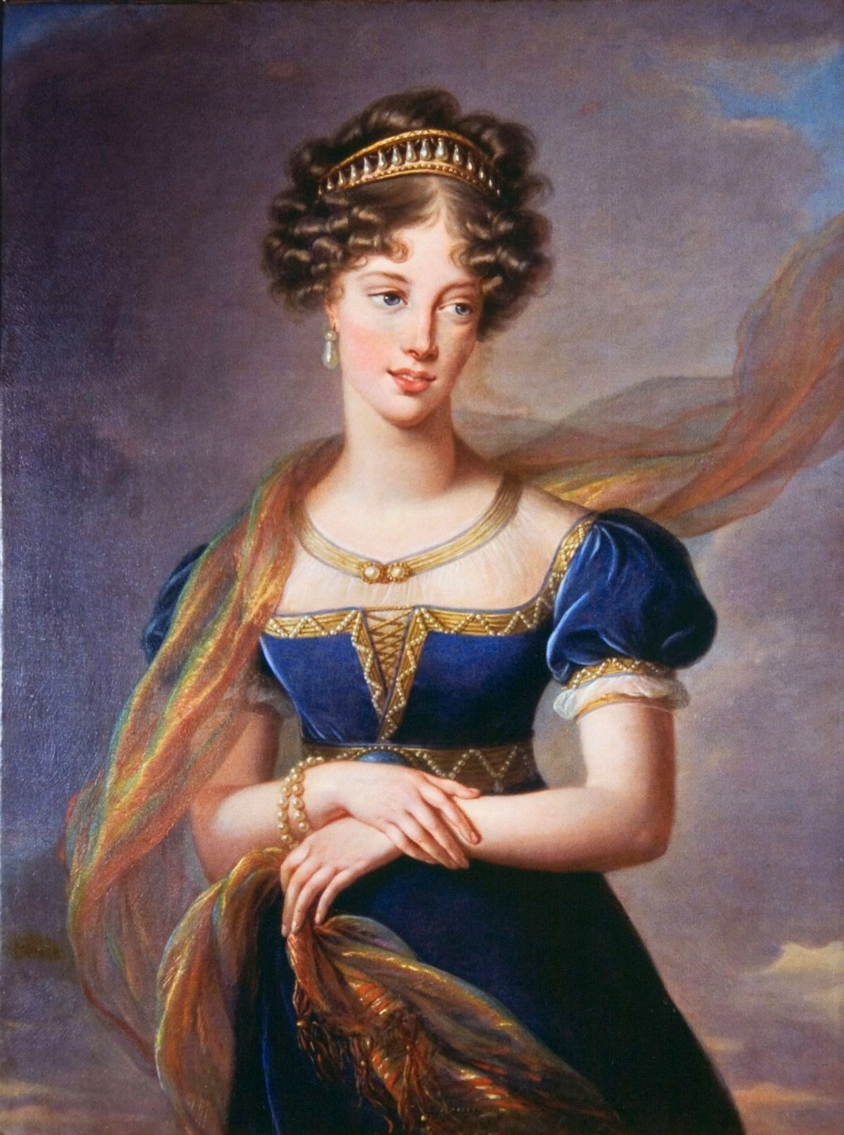 The duchesse de Berry (1798–1870), by birth a princess of Naples, was the widowed mother of the eventual heir to the French throne. Her portrait suggests the exaltation of a young woman who identified with the heroines of Sir Walter Scott. The portraitist staged her against a threatening sky, her scarf swept away by the wind.